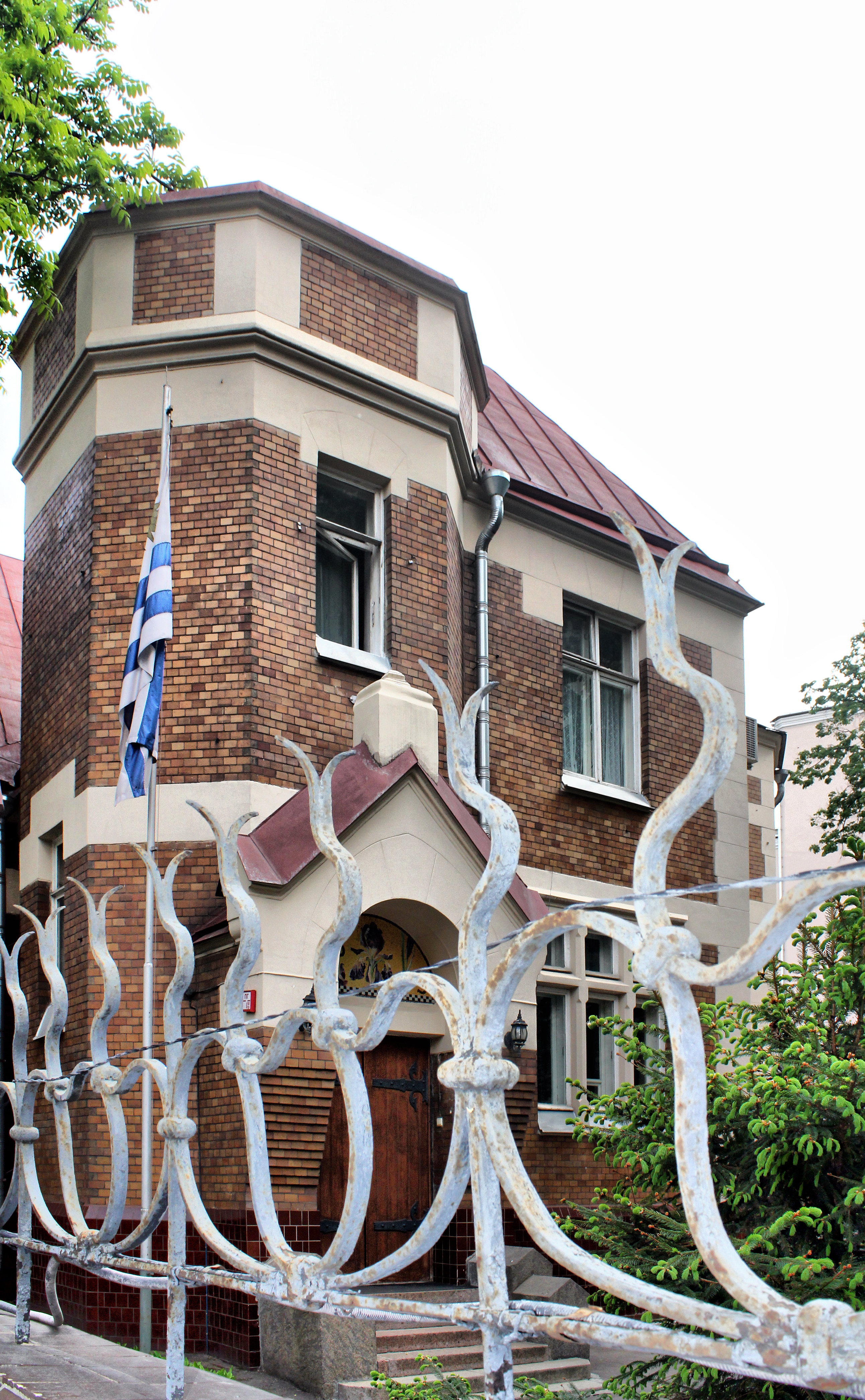 Presnensky District, Moscow, Russia